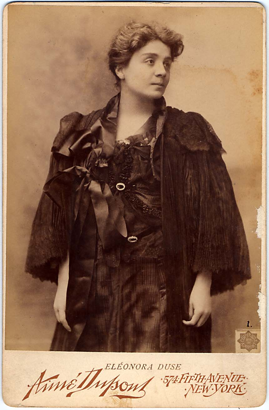 Italian actress Eleonora Duse (1858–1924) in New York